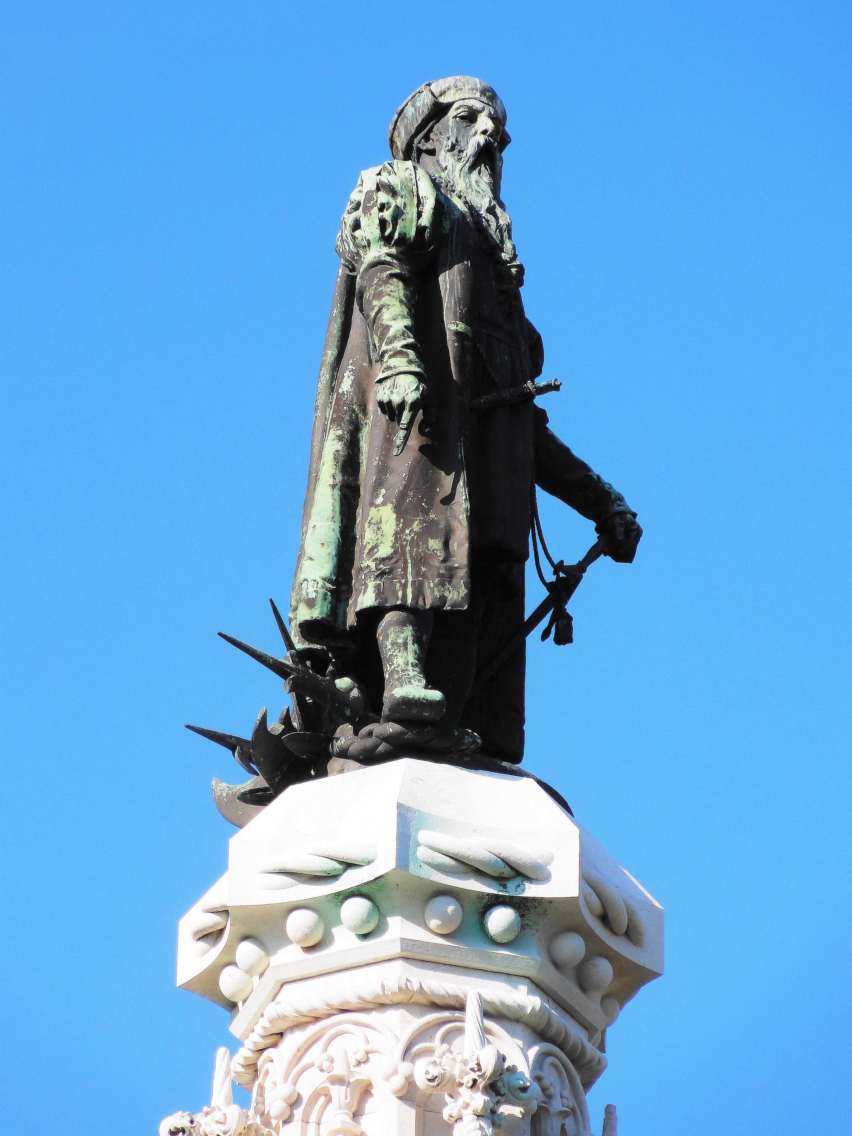 Monument to and at the Square Afonso de Albuquerque in the Belém district of the city of Lisbon, Portugal